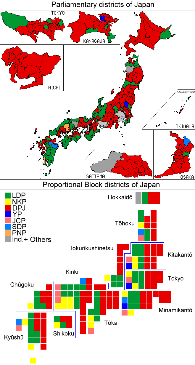 map of seats of PR block and single member of Japanese general election, 2009